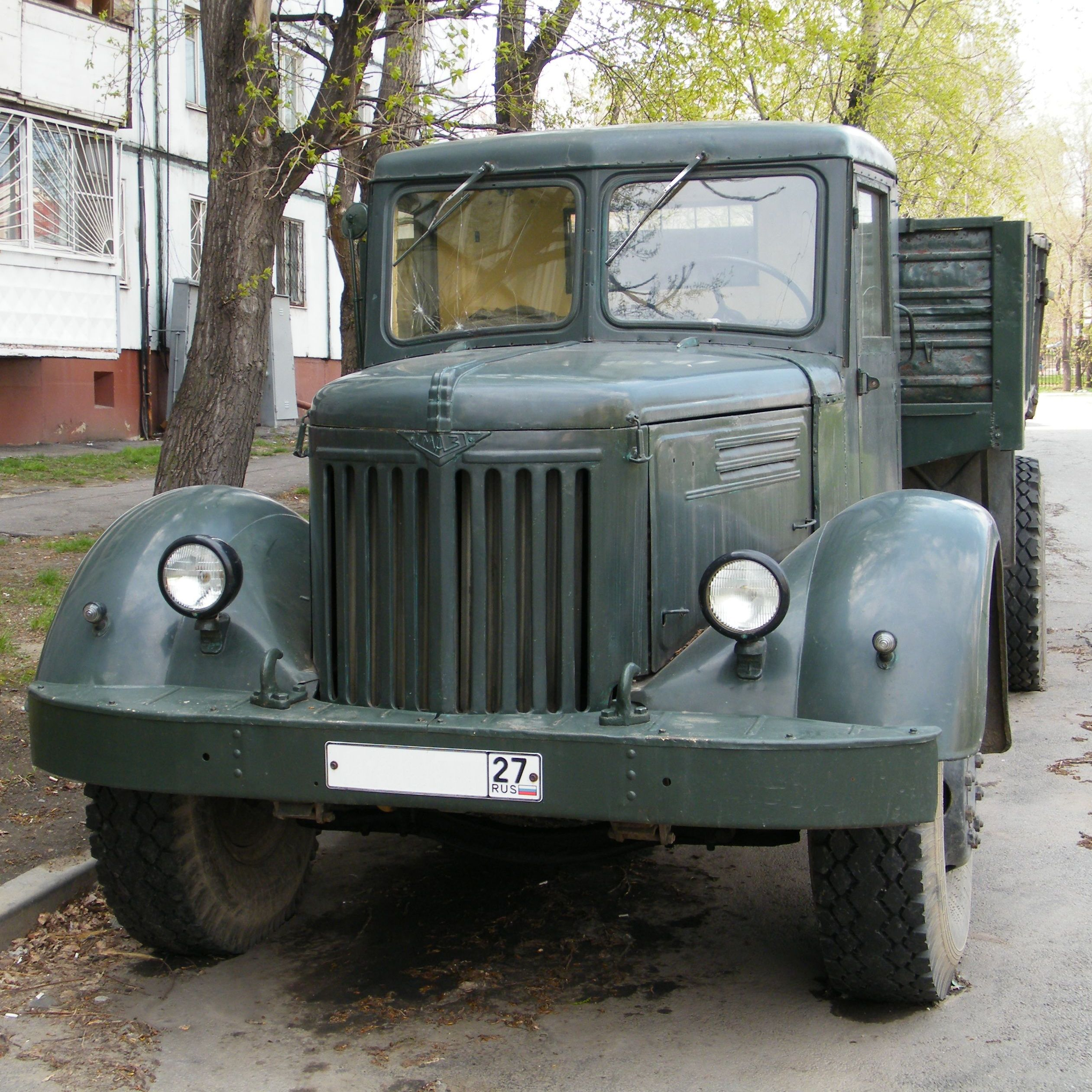 MAZ-200